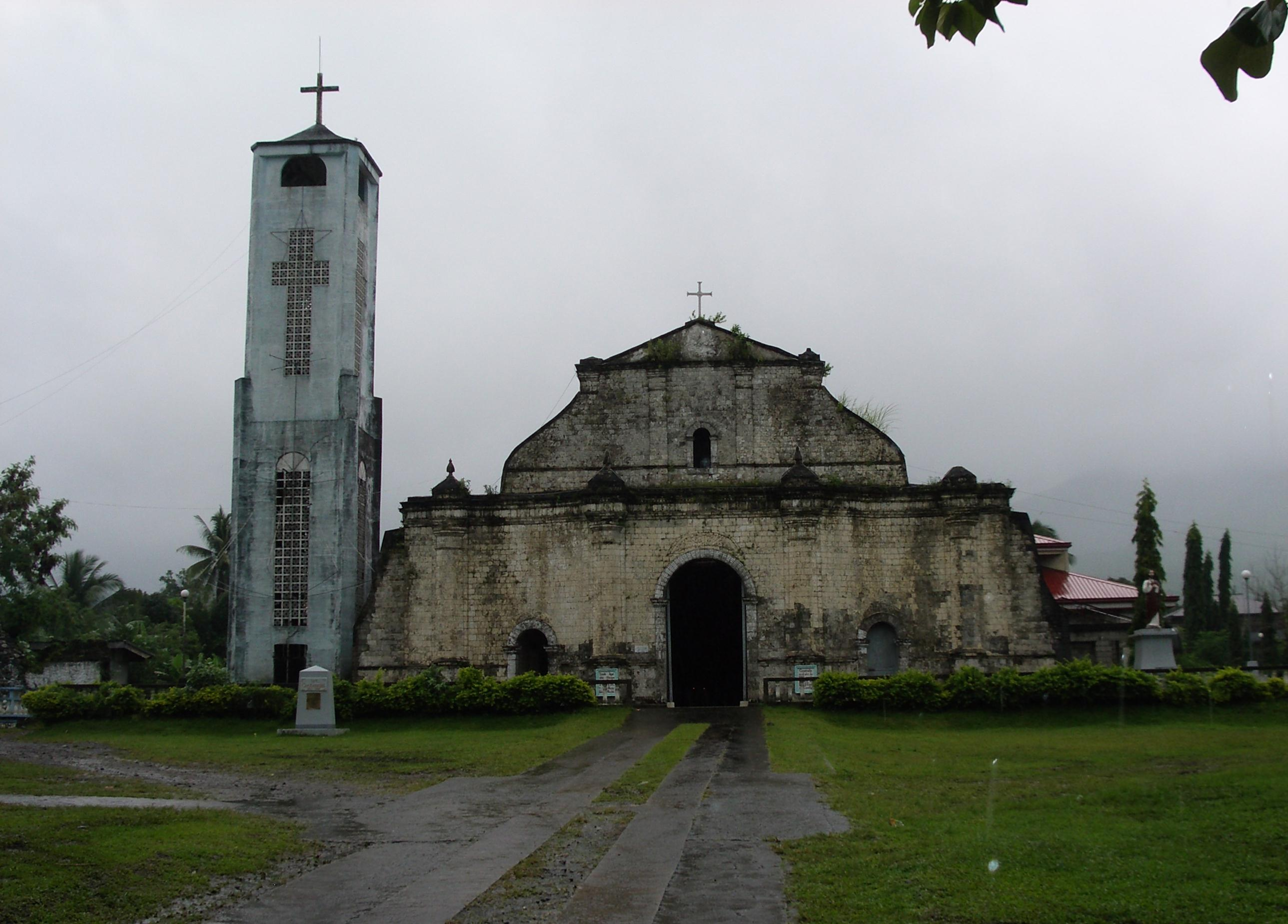 Cabalian church after a downpour.